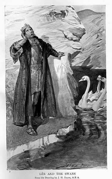 Illustration of Ler and the swans by Harold Robert MillarFrom: Squire, Charles (n.d.), “Chapter 1: The Gods in Exile”, in Celtic Myth And Legend Poetry And Romance, London: Gresham Publishing Company, page 144. Originally published under the title The Mythology of the British Islands, London: Blackie and Son, 1905.